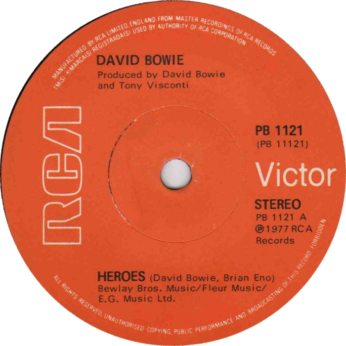 "Heroes" by David Bowie; UK vinyl release